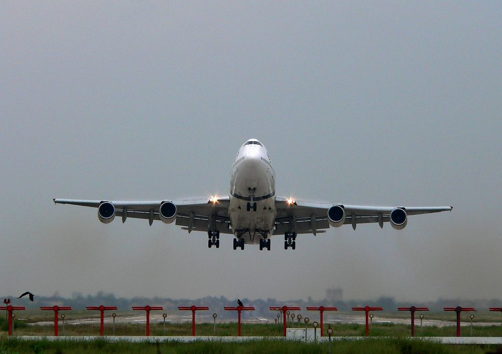 A PIA 747-367 taking off from Allama Iqbal International Airport, Lahore, Pakistan. More images at and